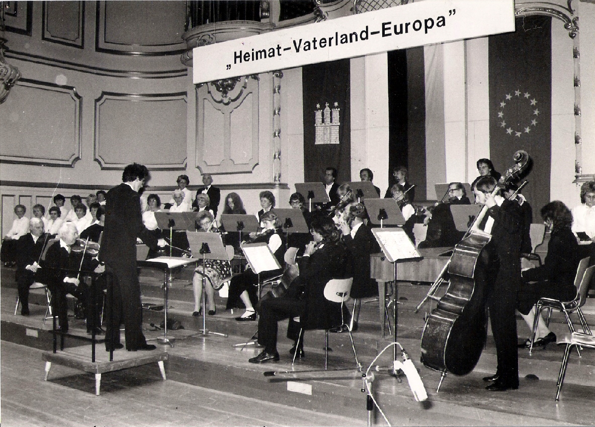 Hamburger Bachorchester (Orchester "Johann Sebastian Bach" from Hamburg, Germany) with his new conductor Axel Bergstedt, in 1984